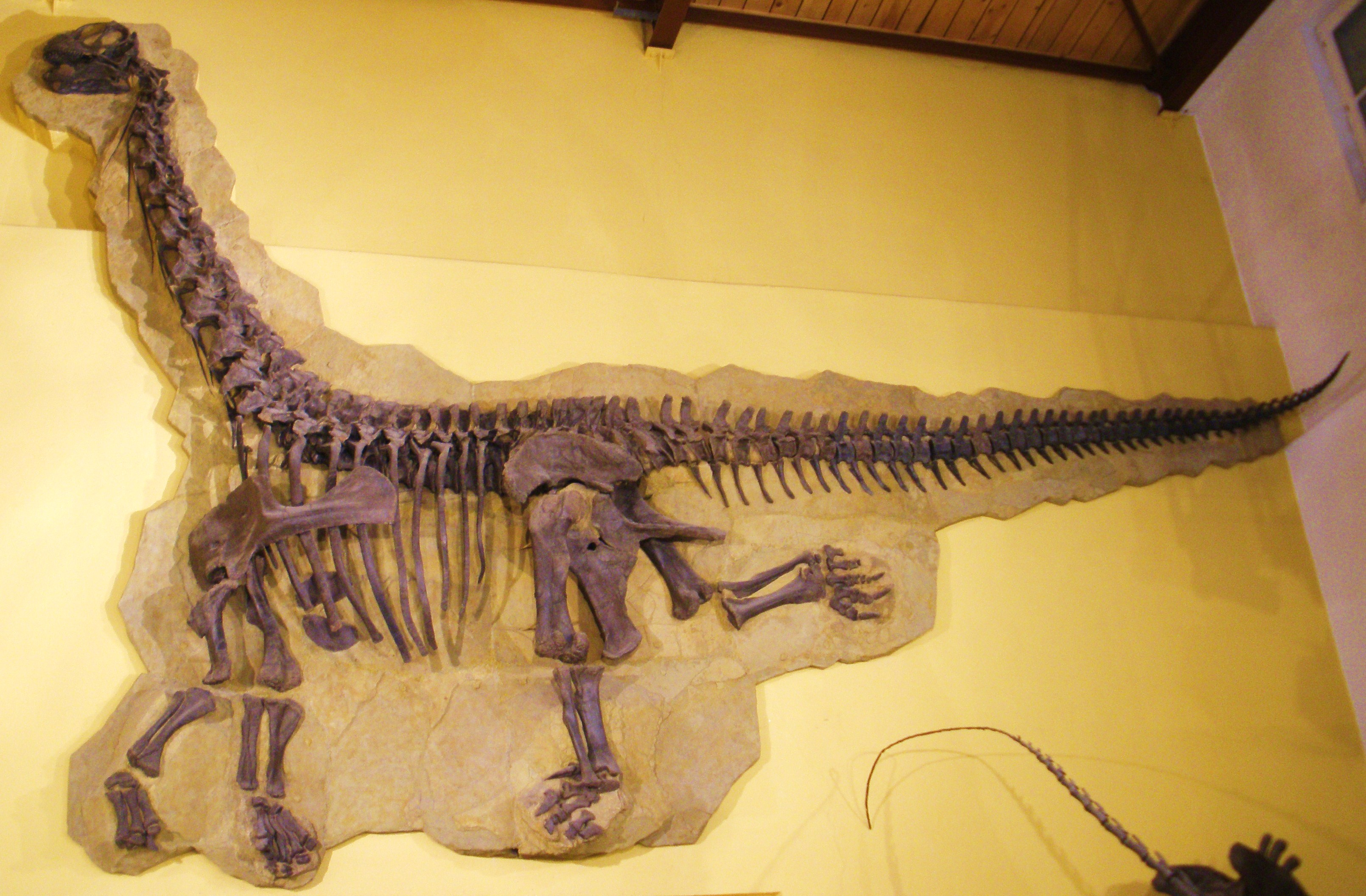 Fossil of Cathethosaurus lewisi (previously Camarasaurus sp.) SMA 002.